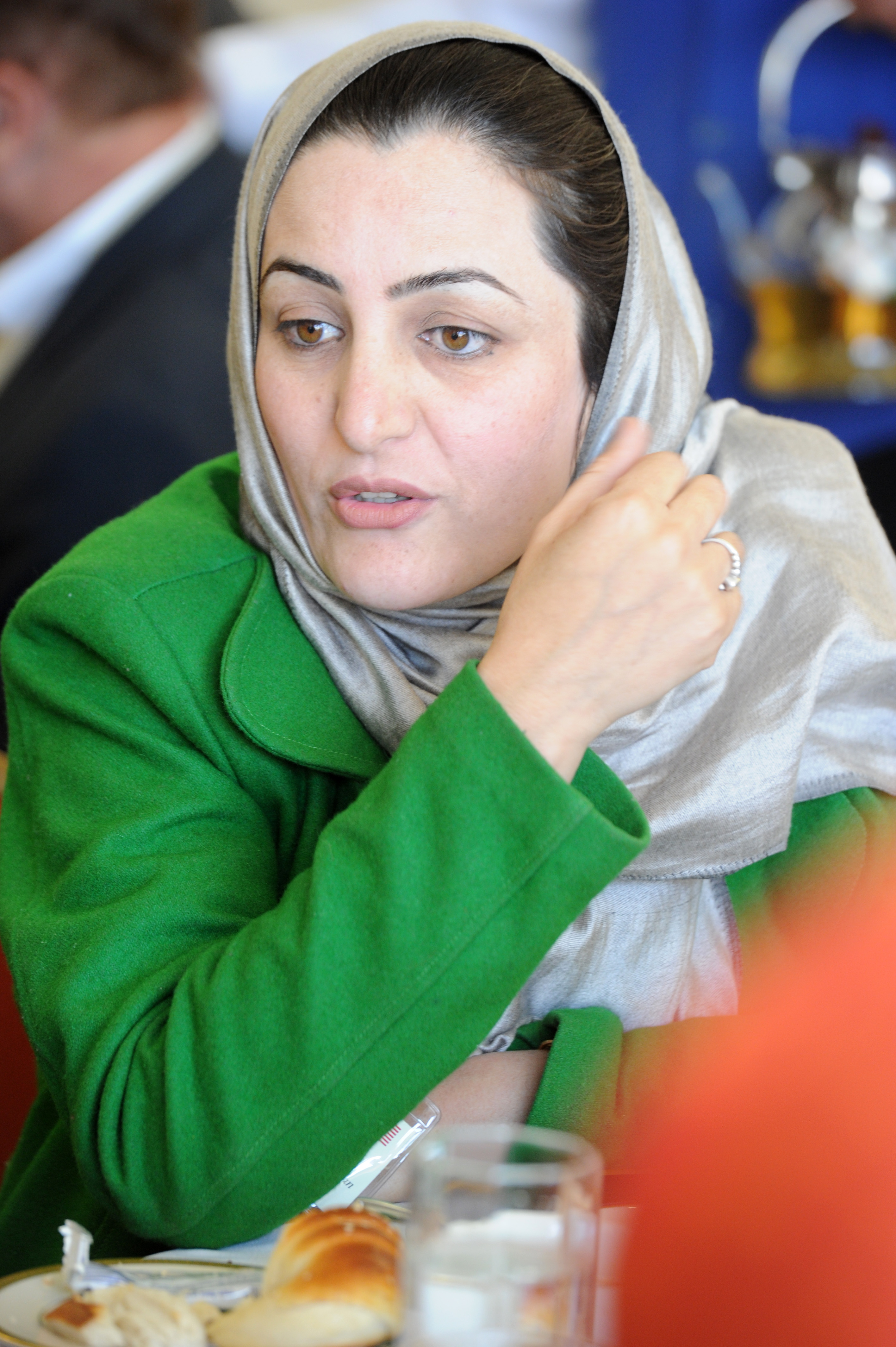 Afghan Parliamentarian Dr. Nilofar Ibrahimi attends a breakfast with U.S. Congressmen and Afghan Parliamentarians hosted by U.S. Ambassador Karl W. Eikenberry at the U.S. Embassy in Kabul, Afghanistan.